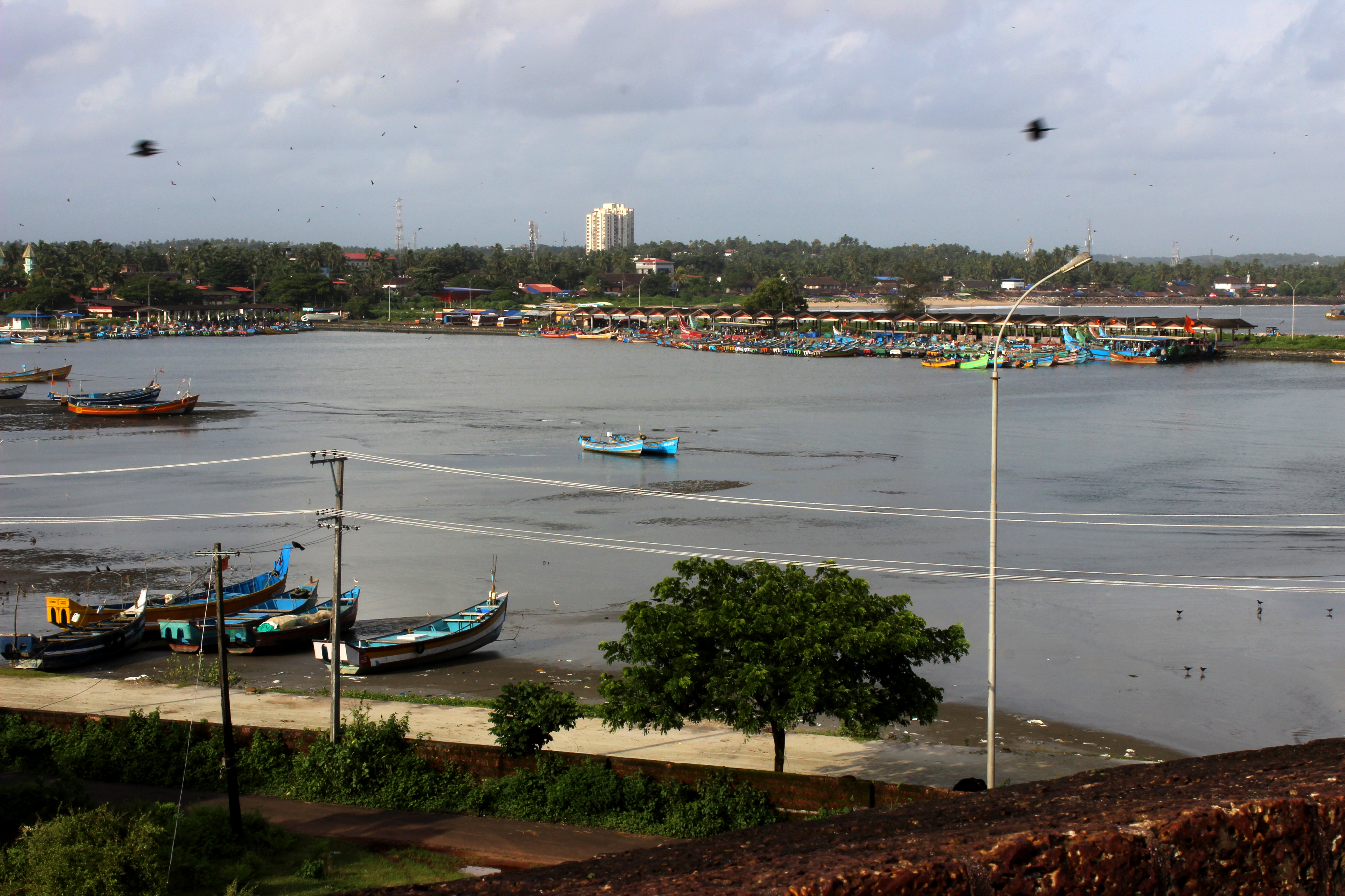 Mappila Bay (or Moppila Bay) is a natural harbor situated in Ayikkara Kannur town, Kerala state of South India. On one side of the bay is Fort St. Angelo, built by the Portuguese in the 15th century and the other side is the Arakkal Palace.